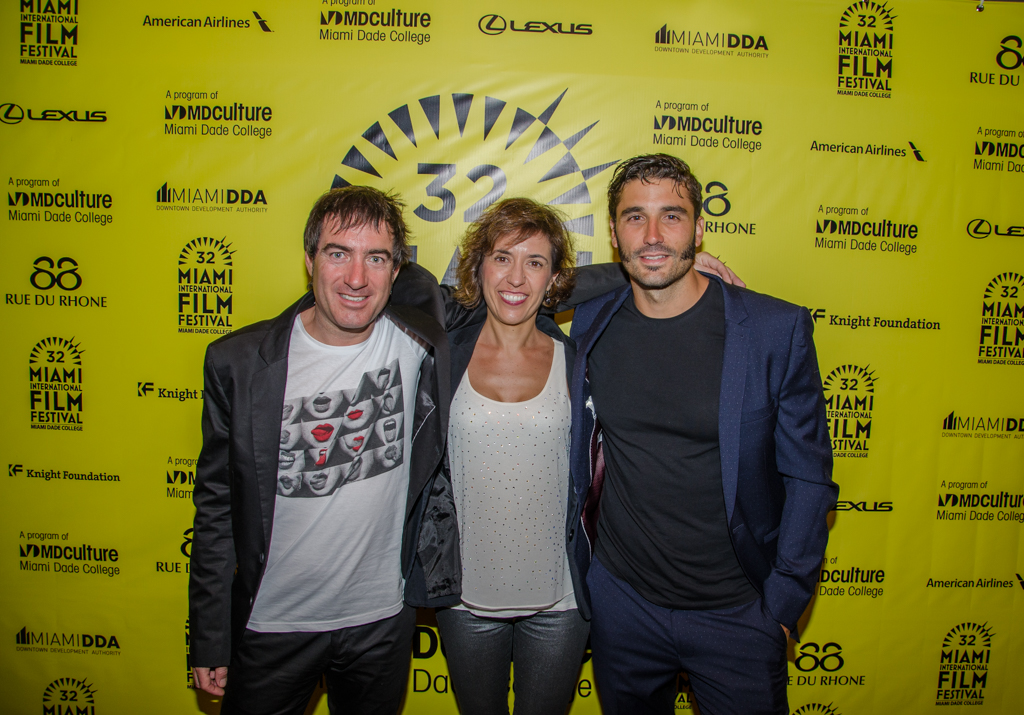 KAMIKAZE director Alex Pina, producer Mercedes Gamero, actor Alex Garcia at the Miami Film Festival presentation of the film